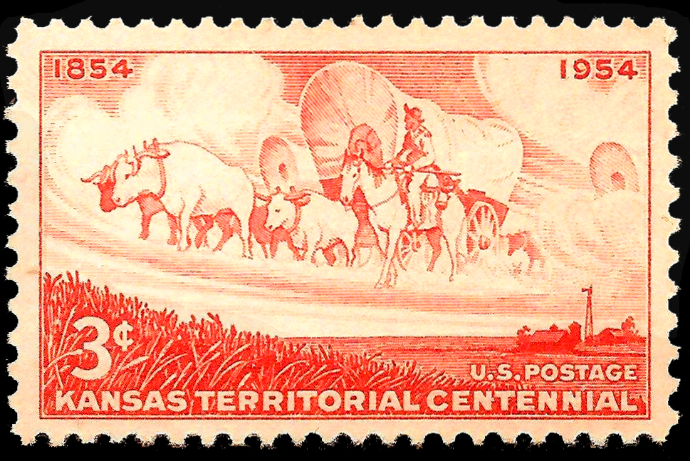 Kansas Territory centennial stamp issue, 1954